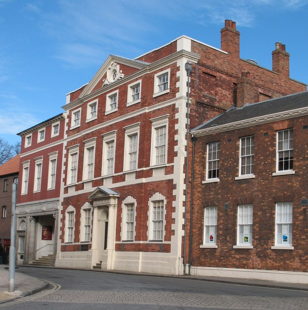 Fairfax House Perhaps the most famous house in York and a fascinating place to visit. John Carr was certainly responsible for the interiors and probably for remodelling the exterior around the same time. Restored 1982-4 by York Civic trust after years of neglect and use as a cinema and dance hall.